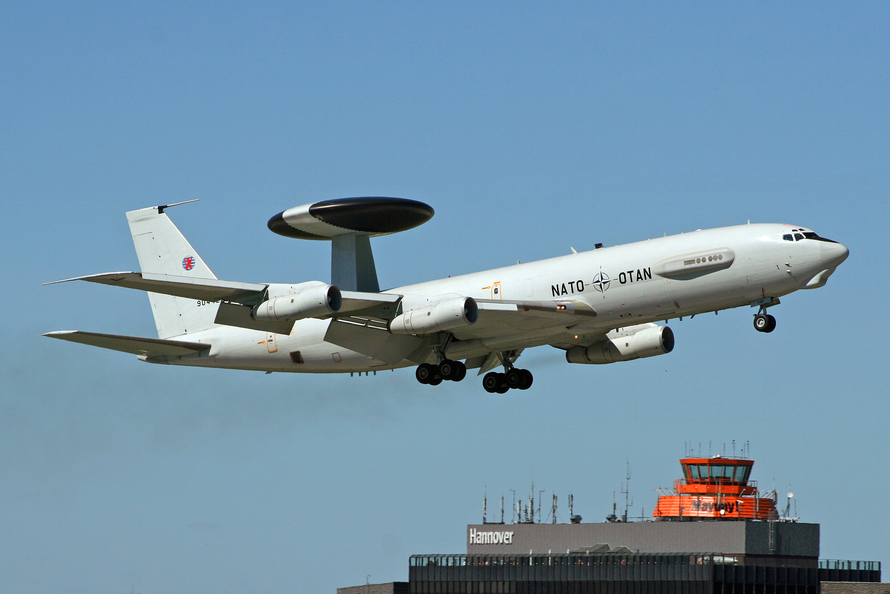 NATO E-3A Component taking off from Hanover/Langenhagen International Airport